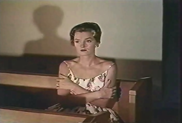 Actress Betsy Jones-Moreland in Last Woman on Earth (Public Domain Film)